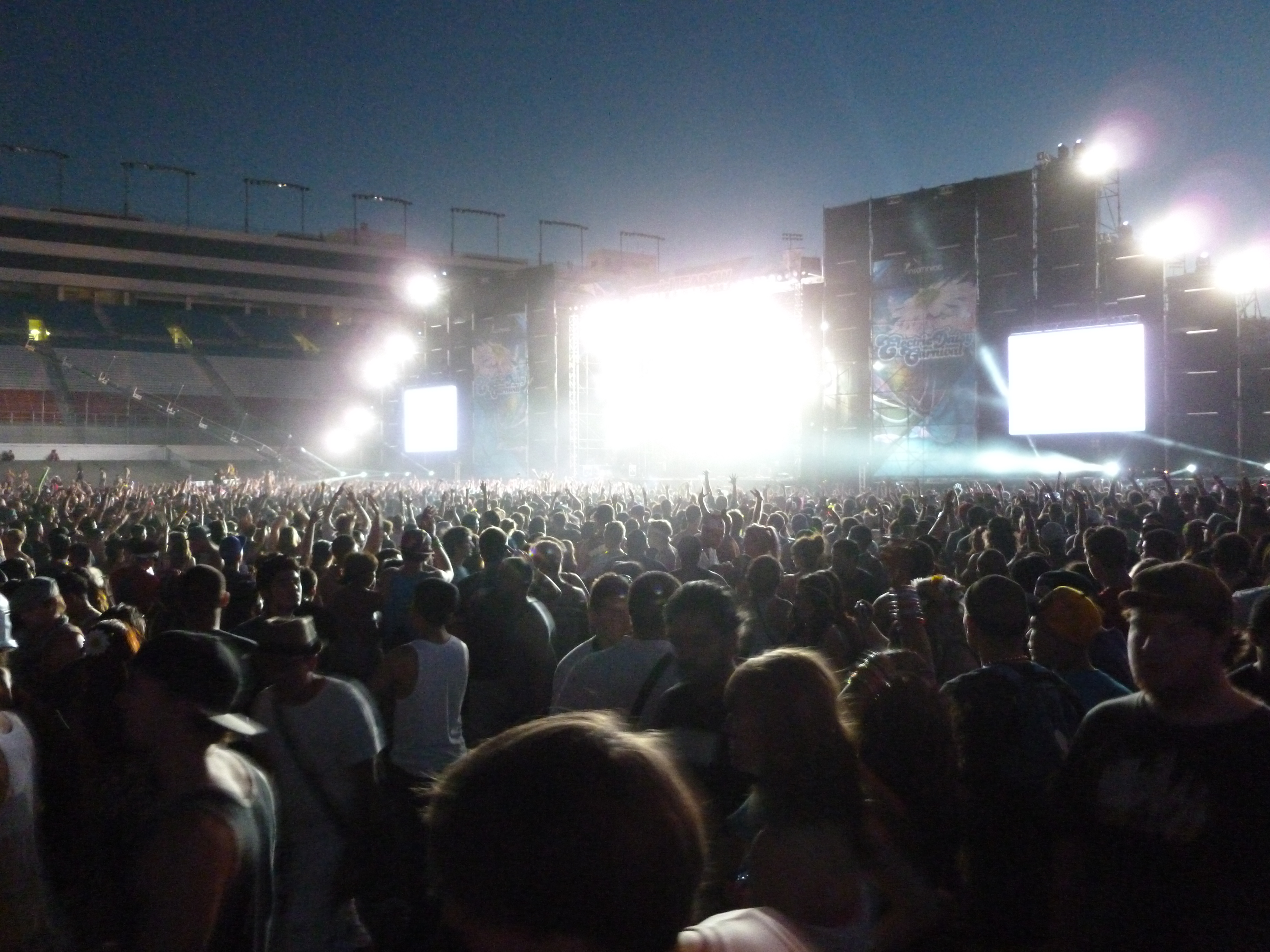 Main Stage at Electric Daisy Carnival 2011 in Las Vegas